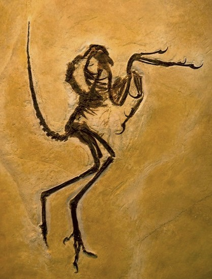 Solnhofen Specimen of Archaeopteryx (also labeled Wellnhoferia), Bavaria.